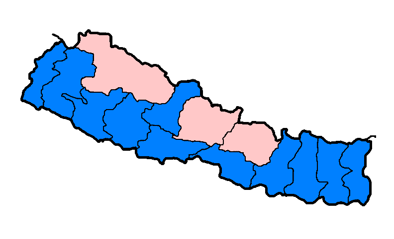 Nepal zones flood hit between July 3 and August 15 2007